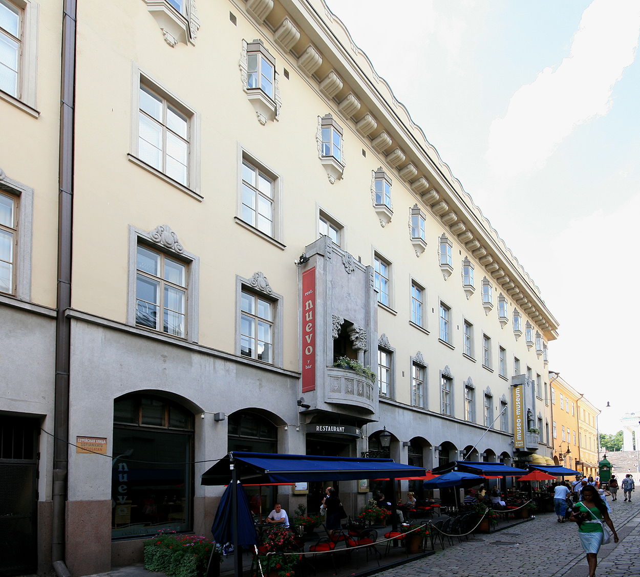 Sofiankatu 4, Helsinki, Finland. Architect: Lars Sonck. Built 1913.